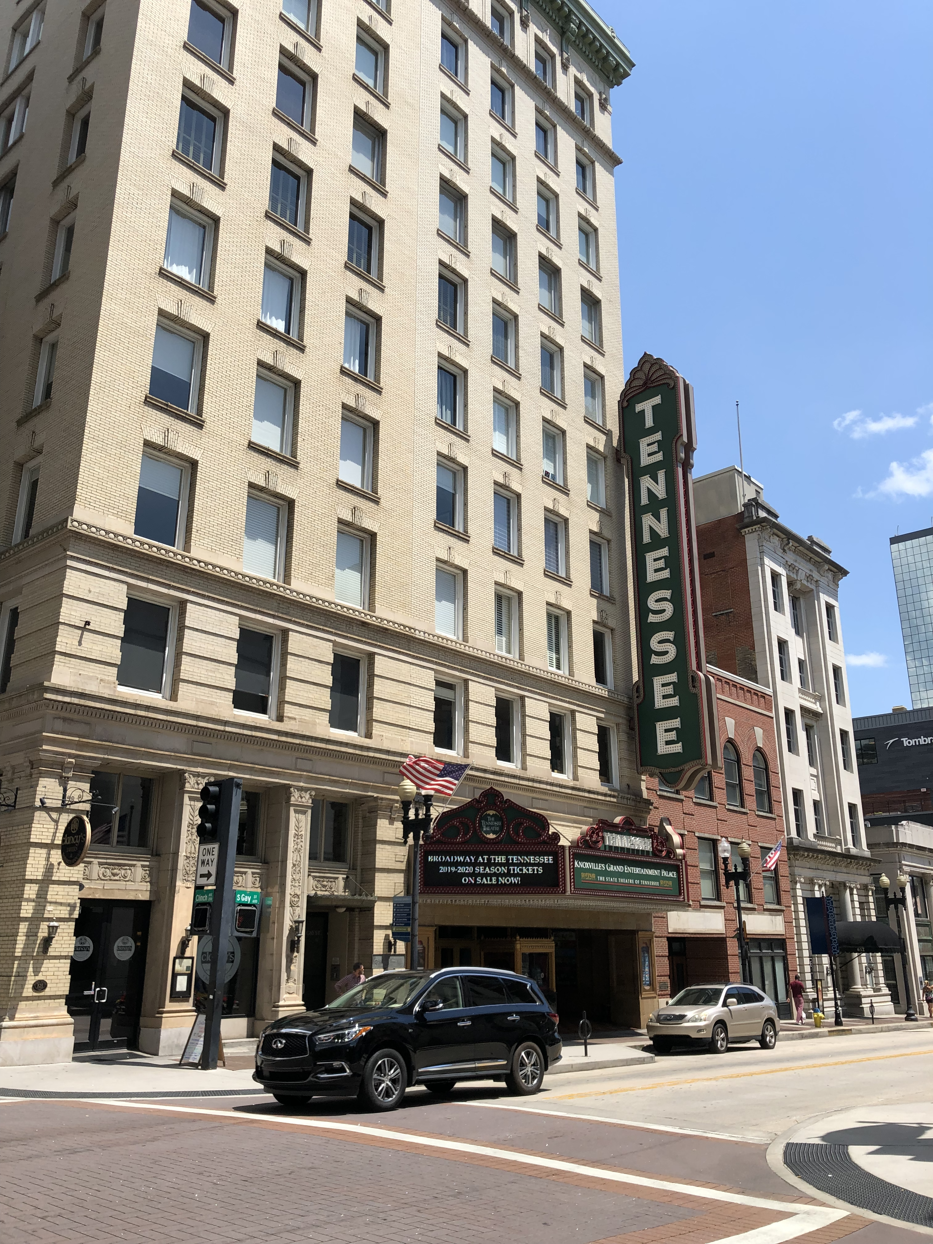 Front of Tennessee Theatre in July 2019